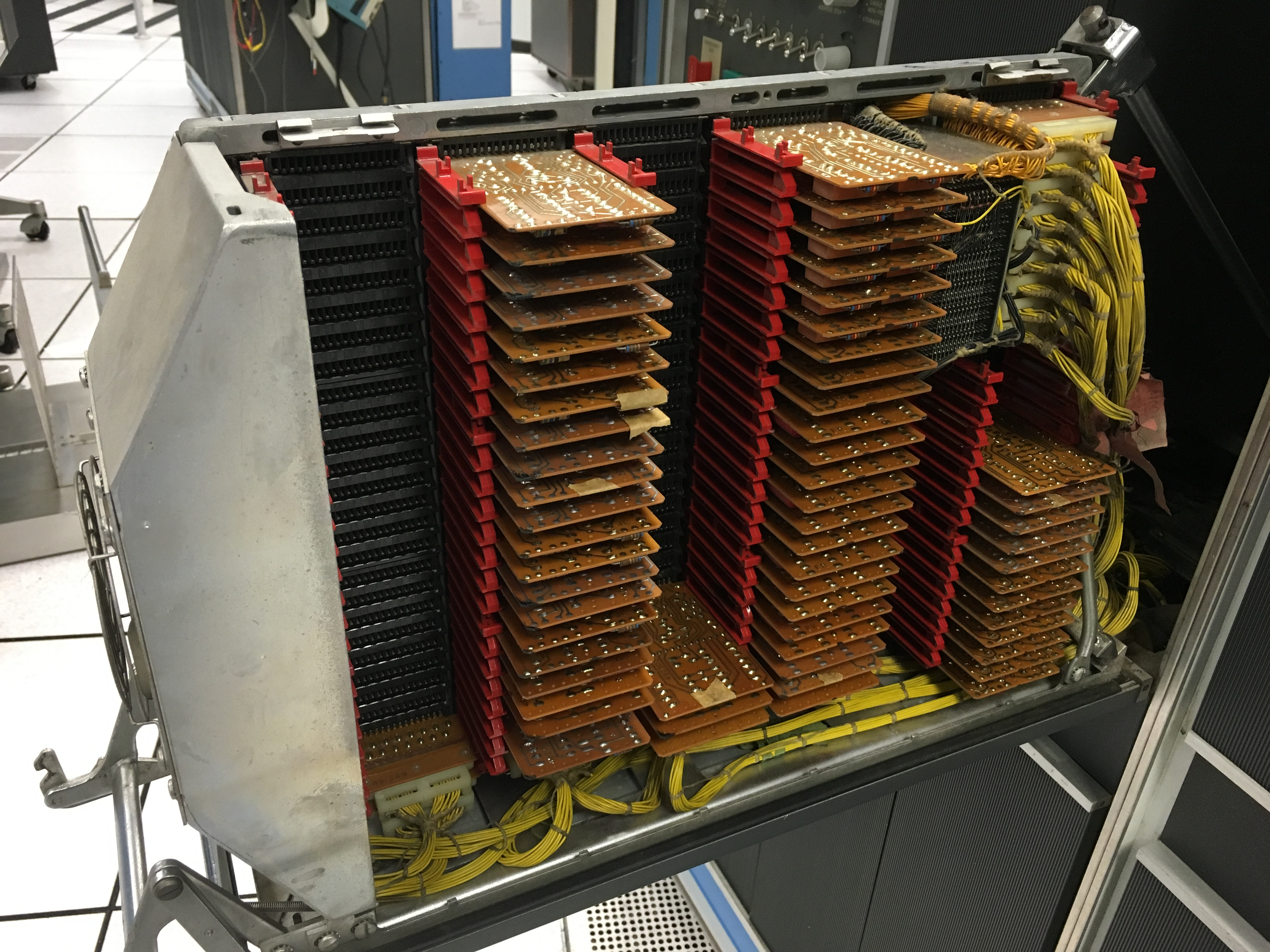 Pull out drawer containing SMS cards on an IBM 1401 at the Computer History Museum.